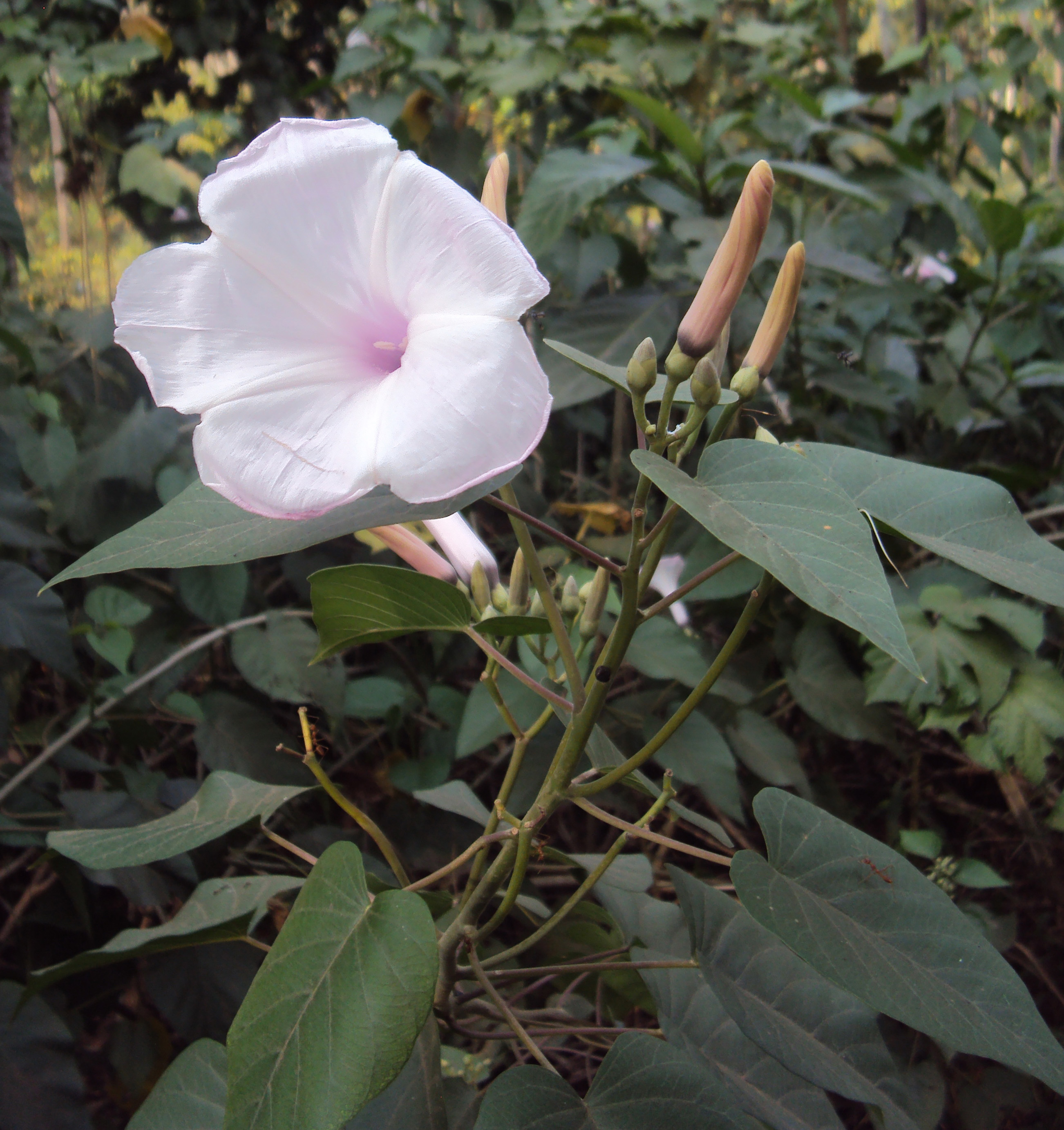 Ipomoea carnea